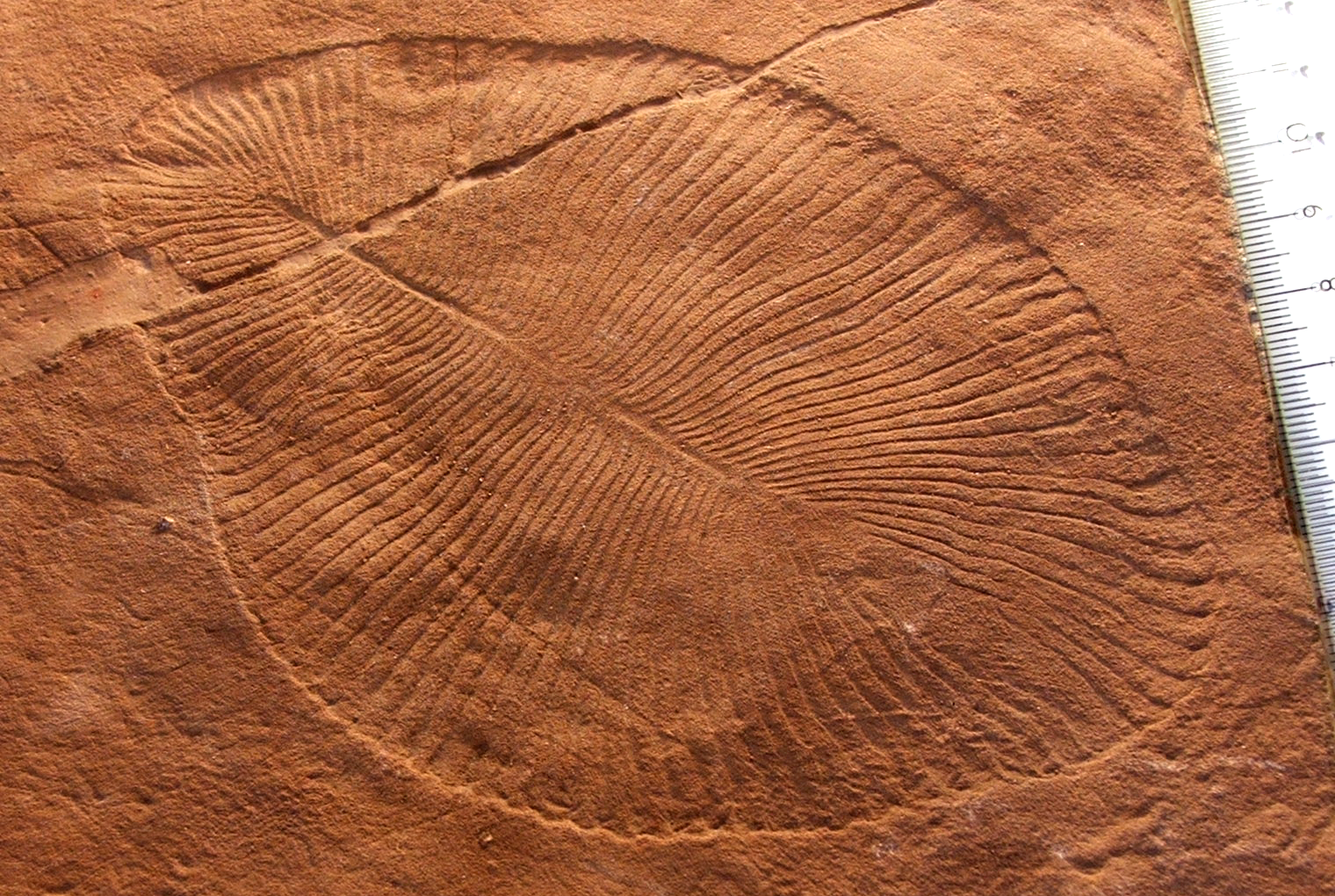 A remix of my previusly uploaded file DickinsoniaCostata.png , being more selevtive with sources.